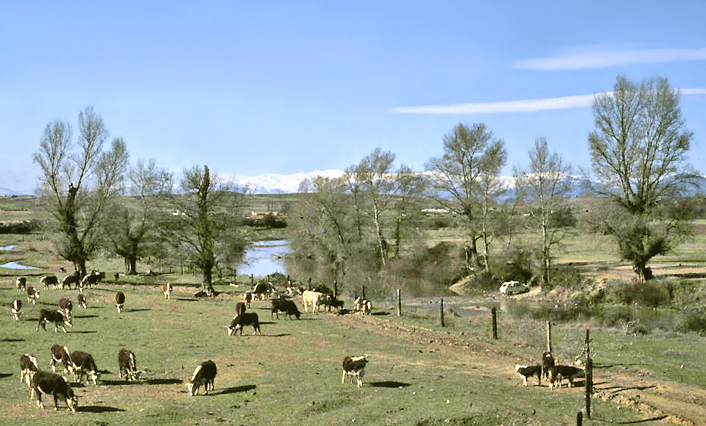 Hereford cattle in Jarama meadows. Barajas, Madrid, Spain